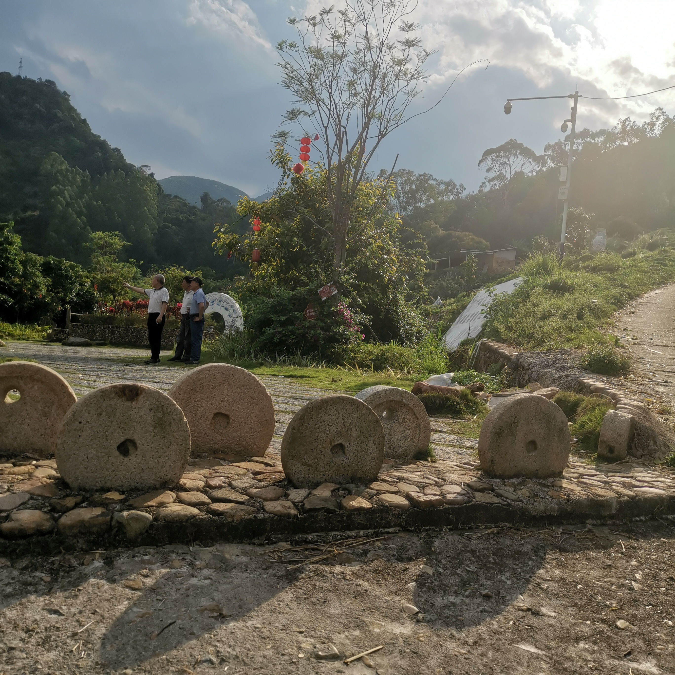 Kangcuo Viliage, Nansheng Town, Pinghe, Zhangzhou, Fujian China